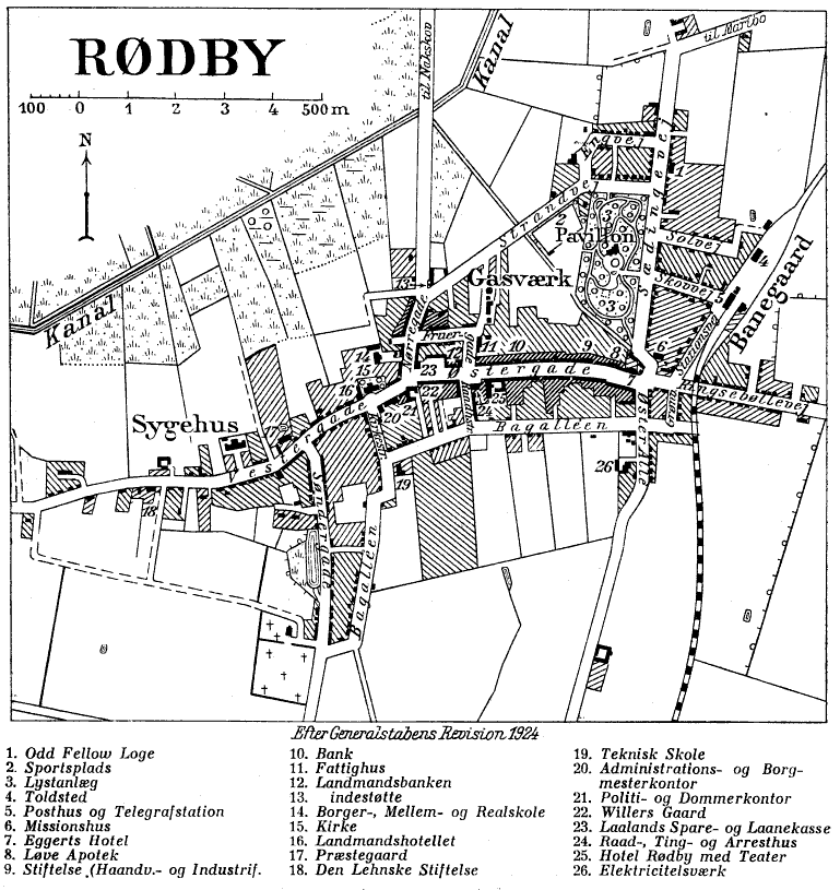 Map of Rødby (Denmark) 1924